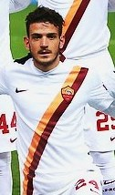 AS Roma